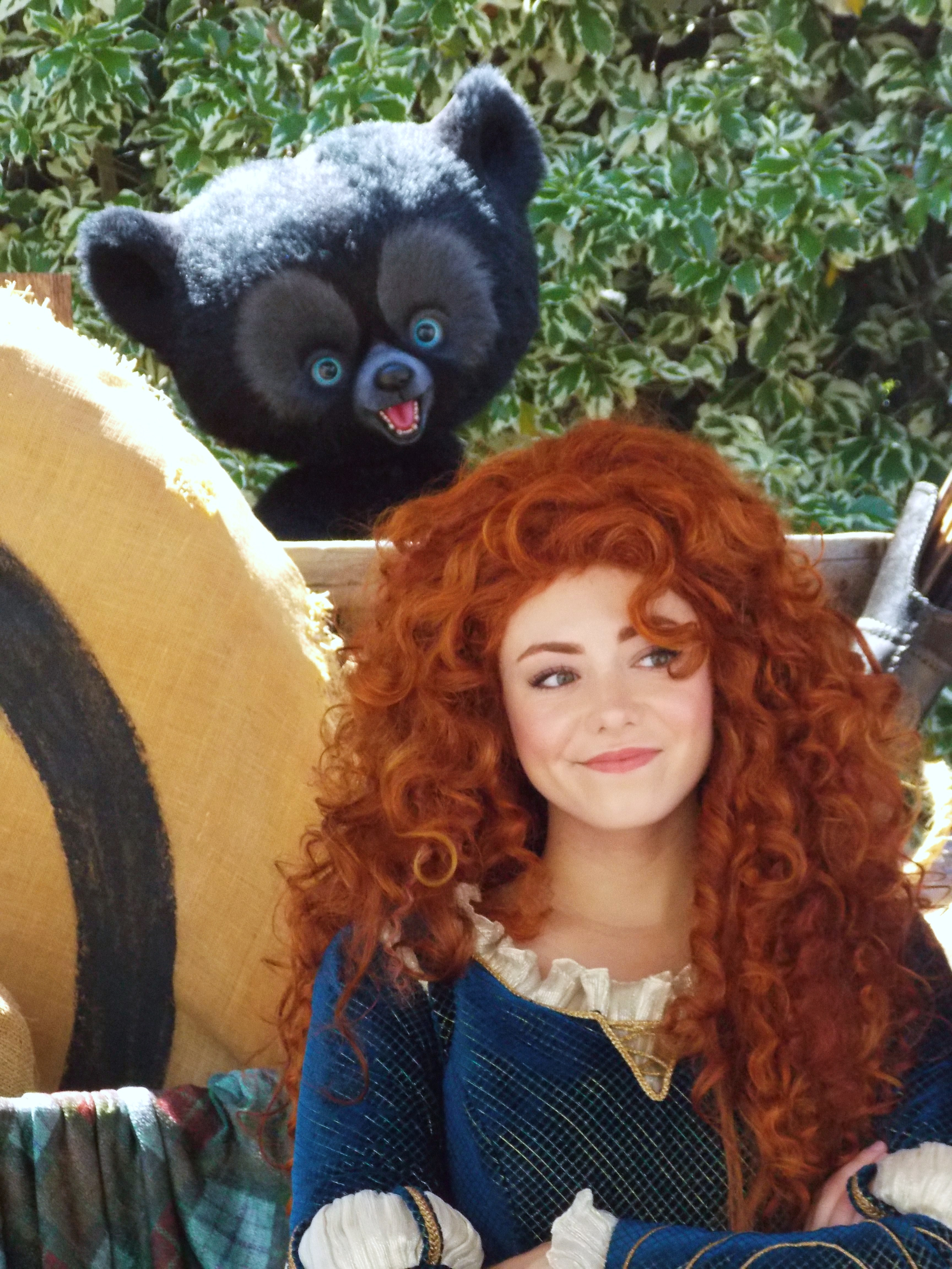 Actress portraying Merida from Brave, at Disneyland.